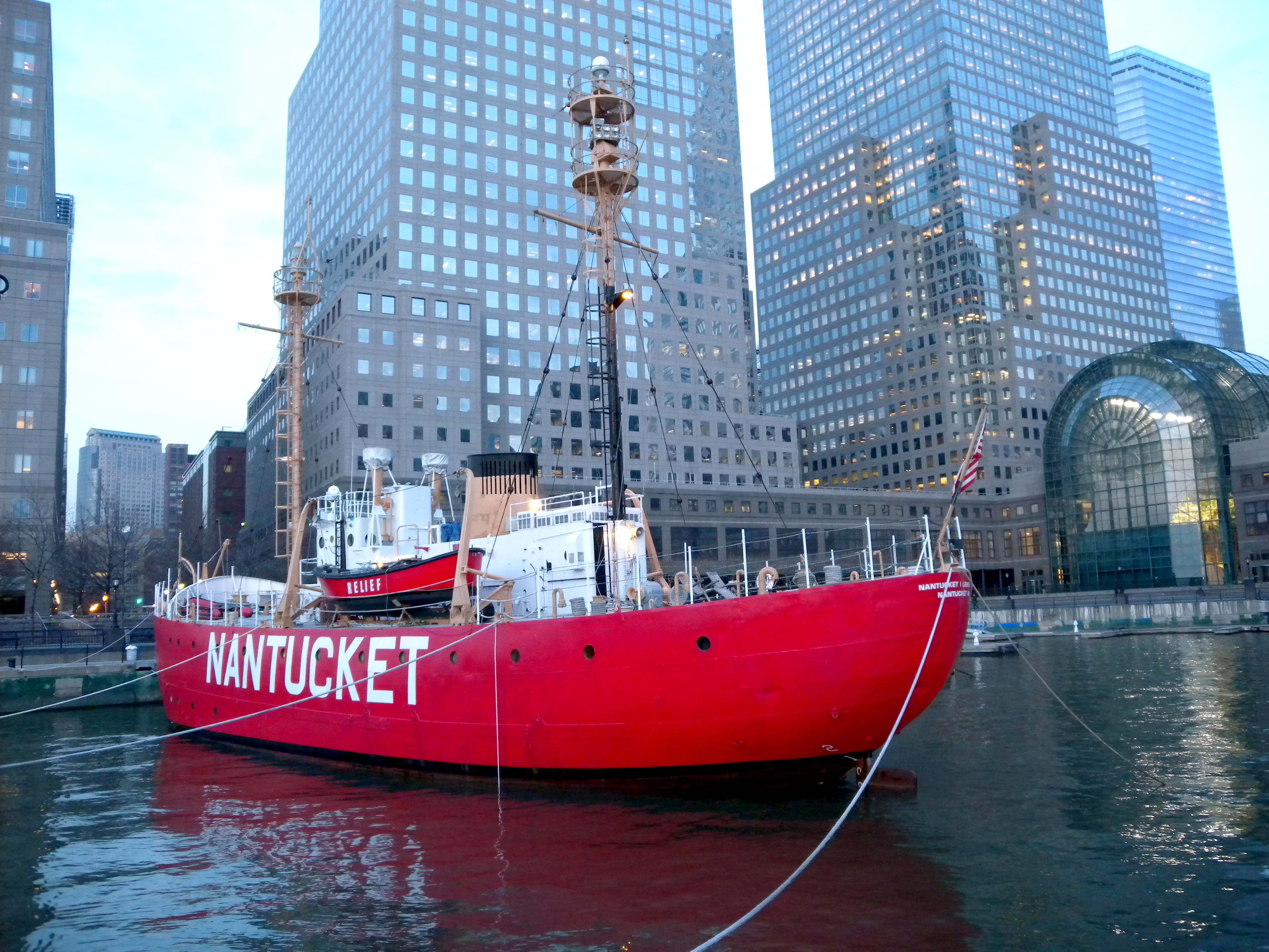 Looking northeast at Lightship Nantucket (WLV-612) in the harbor of the World Financial Center at dusk.